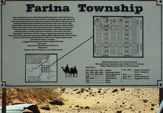 Information sign at Farina.